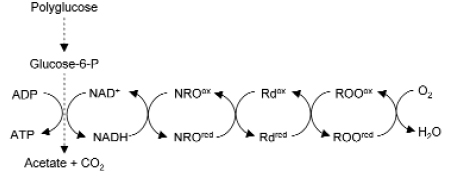 Xavier_AV_the_D_gigas_oxygen_utilizing_pathway (António_de_Vasconcelos_Xavier